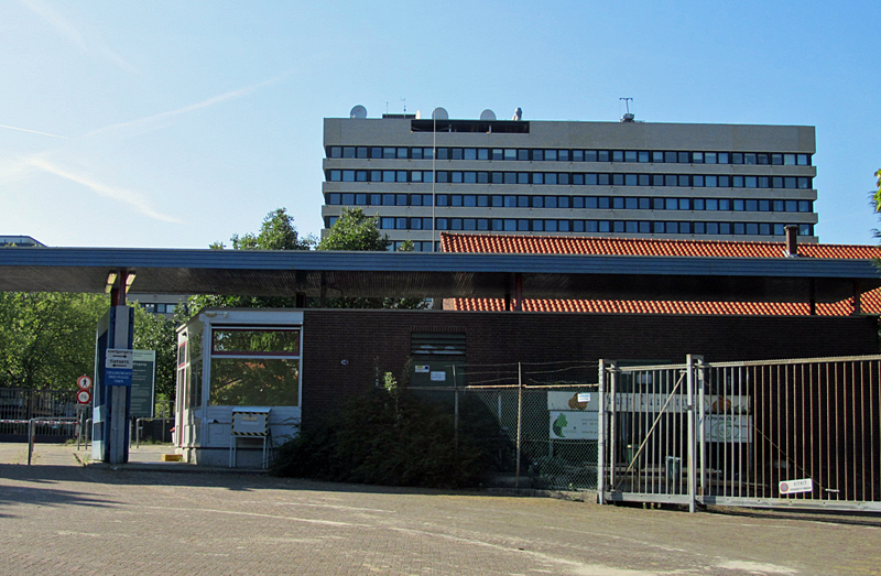 Headquarters of the Dutch Military Intelligence and Security Service MIVD in The Hague